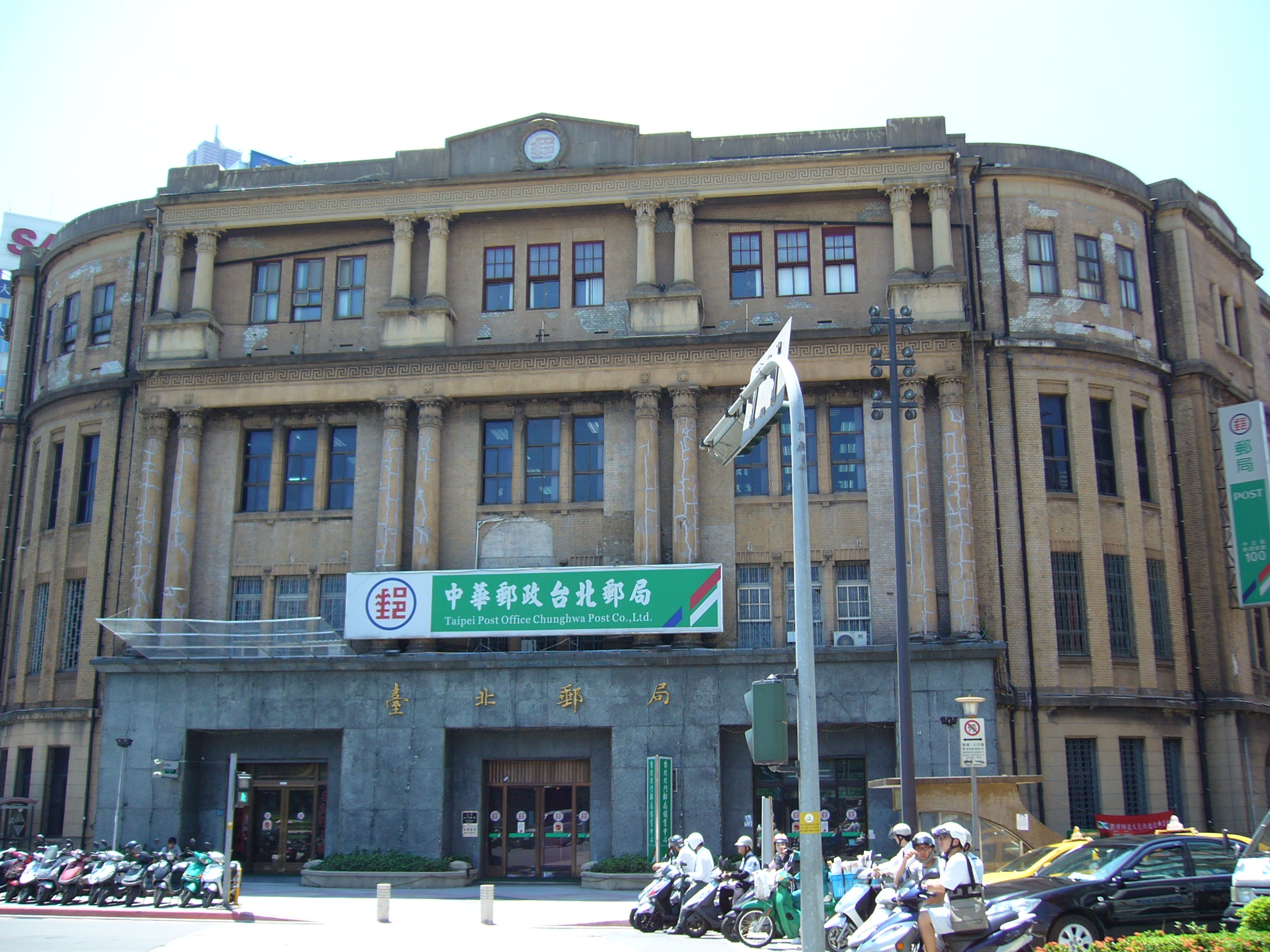 Taipei Post Office front view